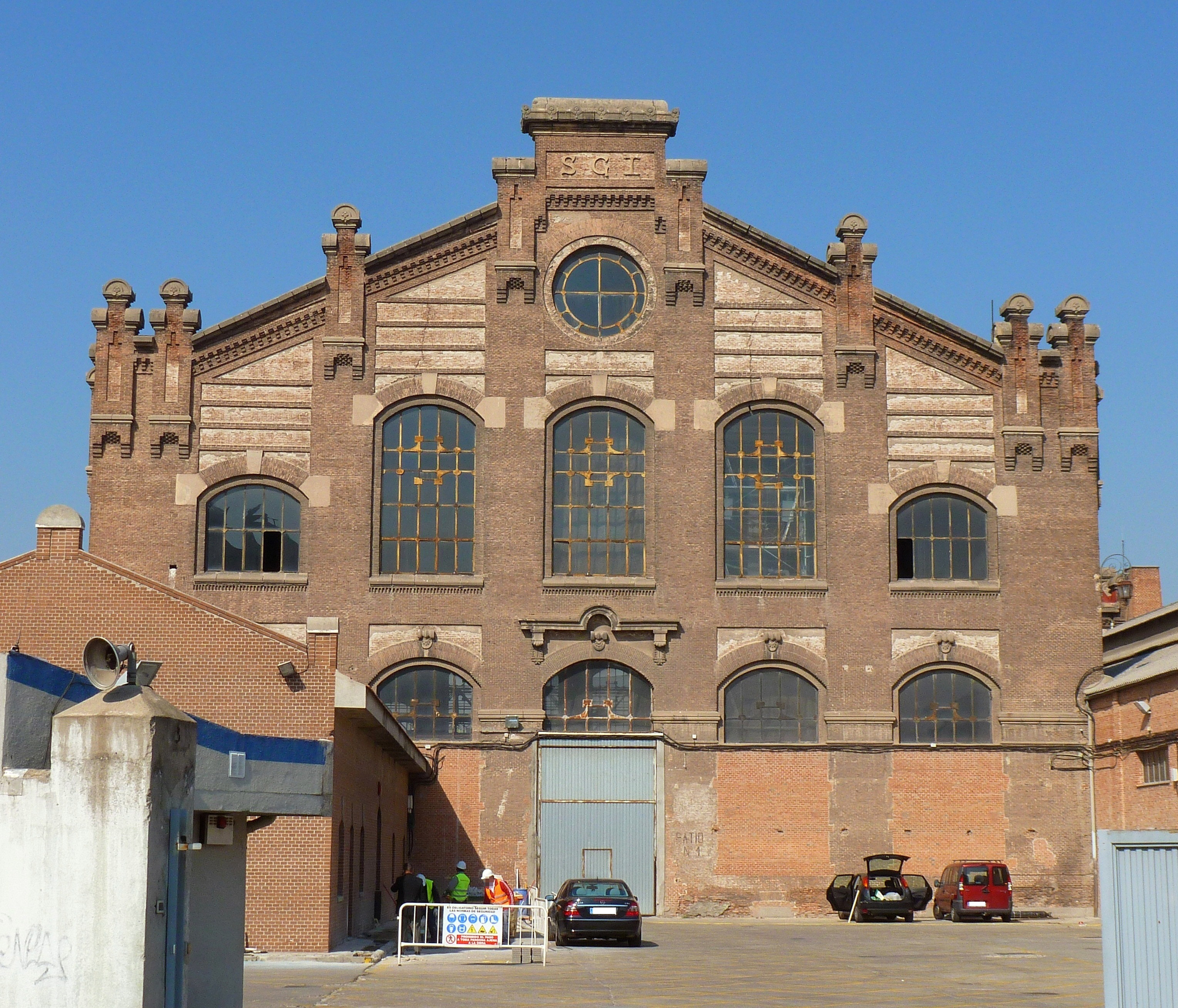 Building of the former Sociedad de Gasificación Industrial, Madrid, Spain.